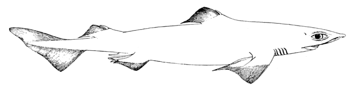 Gulper shark (Centrophorus granulosus)